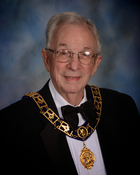 Grand Master of Ancient, Free and Accepted Masons of North Carolina (1985)